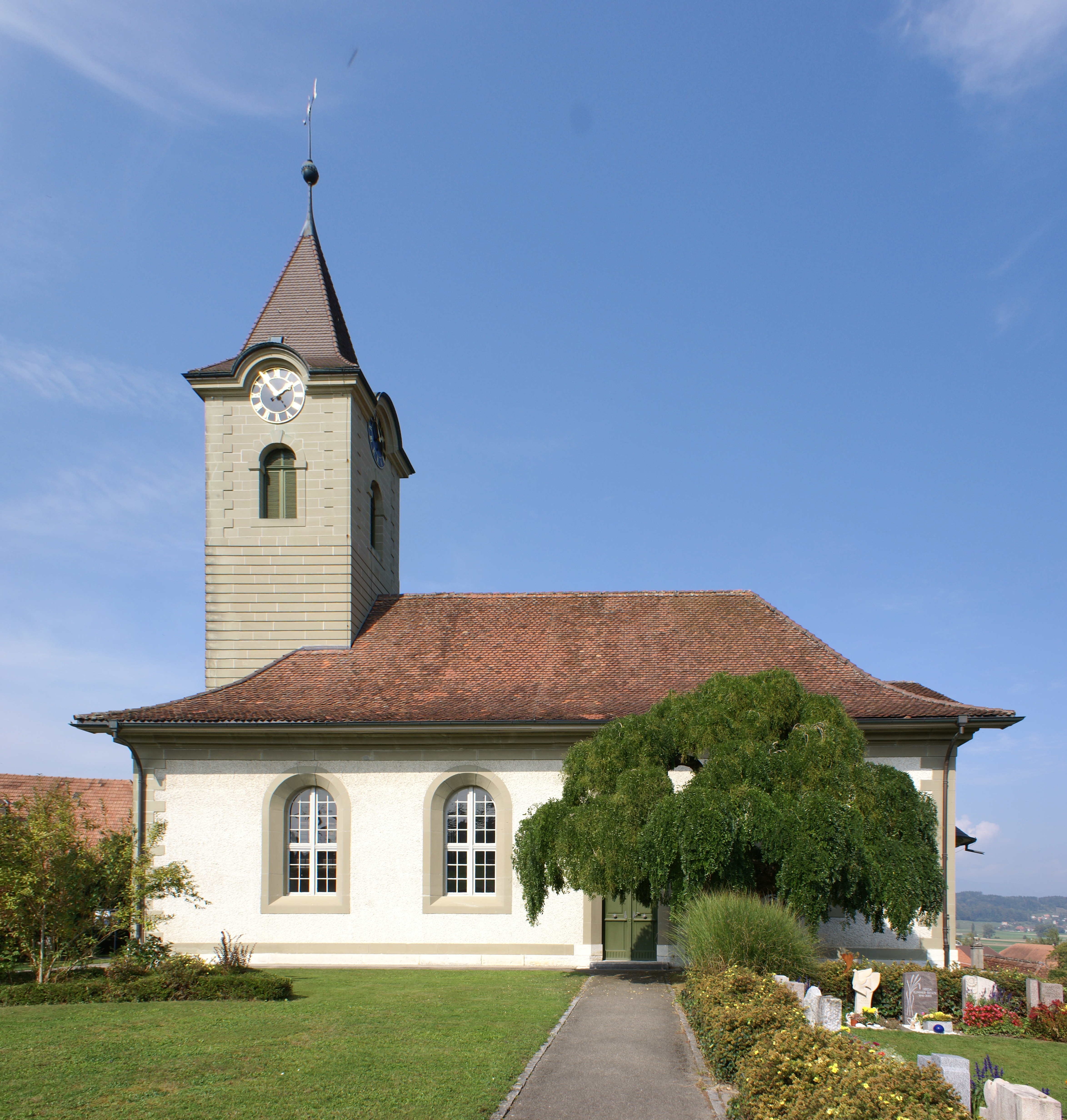 Reformed Church, Limpach, Switzerland.